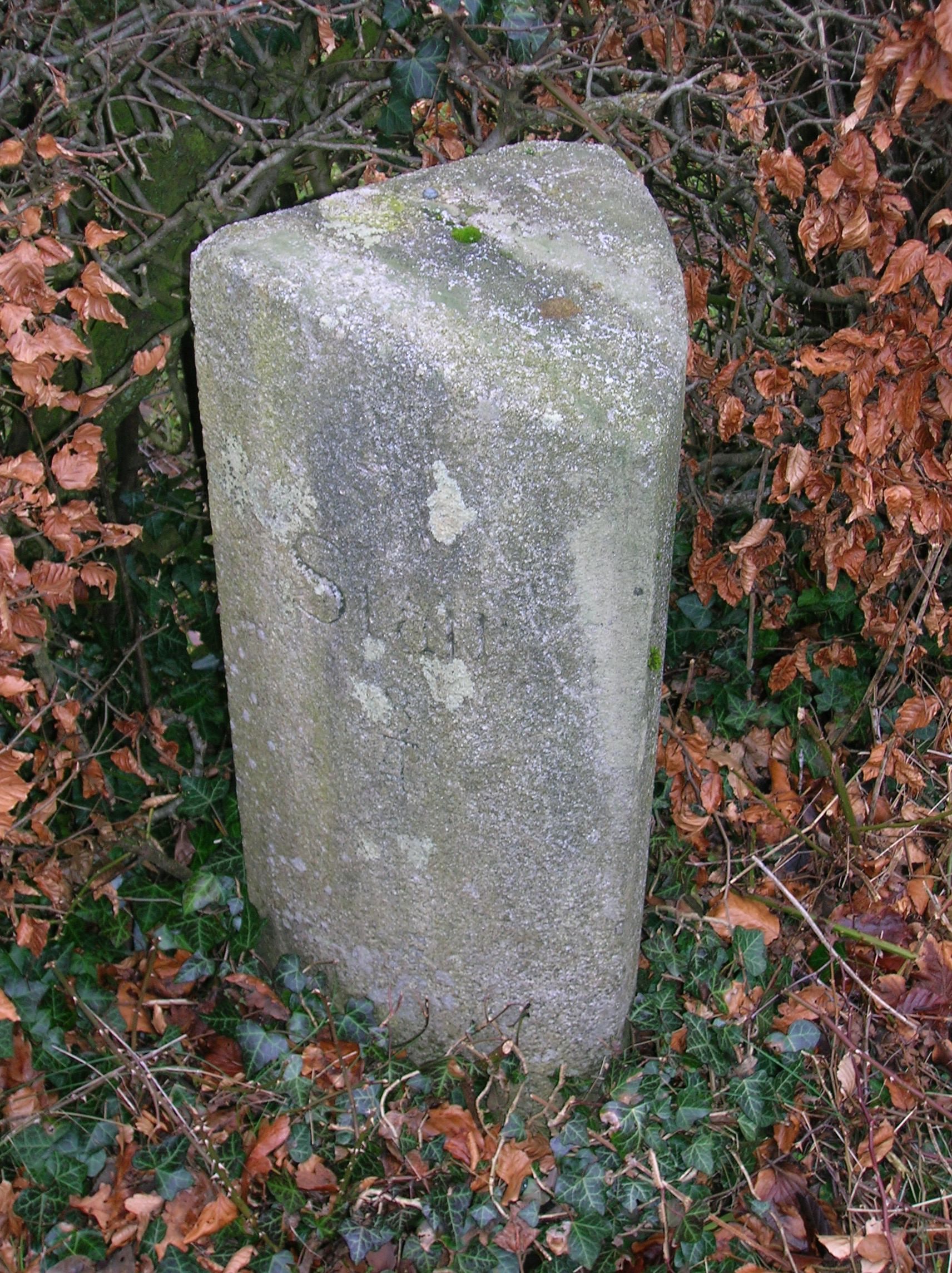 Milestone - Stair to Ayr turnpike, Dalmore, East Ayrshire, Scotland